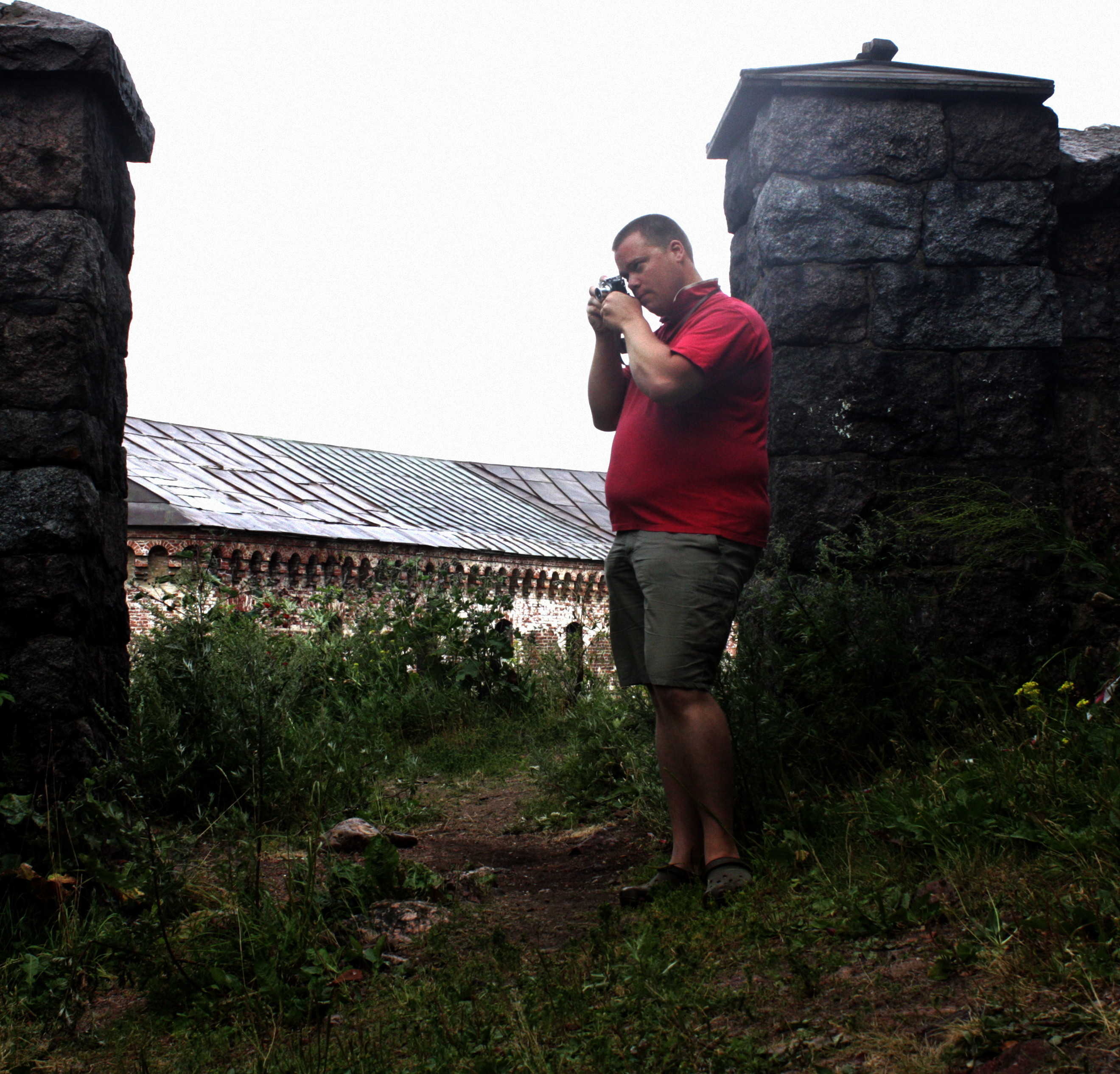 Tatu "Sille" Kosonen and Leica IIIc in Vyborg, Russia, 23.7.2010